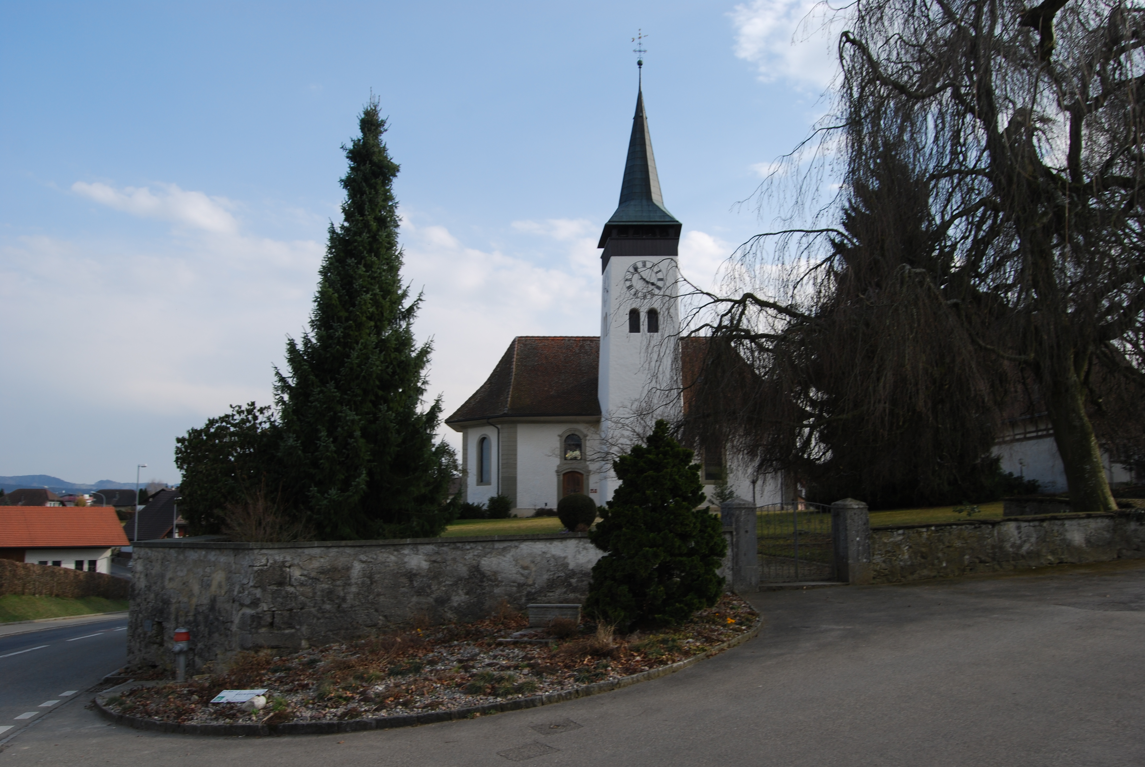 Protestant church of Thunstetten, canton of Bern, Switzerland